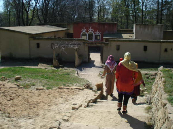 Guests at the Museumpark Orientalis